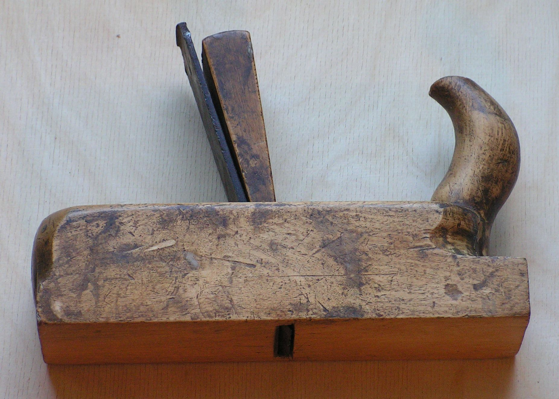 Toothing plane for use when preparing a ground before veneering